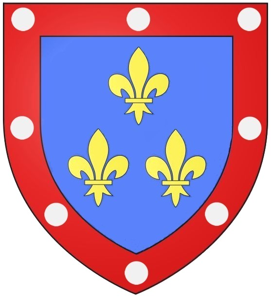 Blason de l'abbaye de Troarn dessiné dans l'Armorial général de 1696